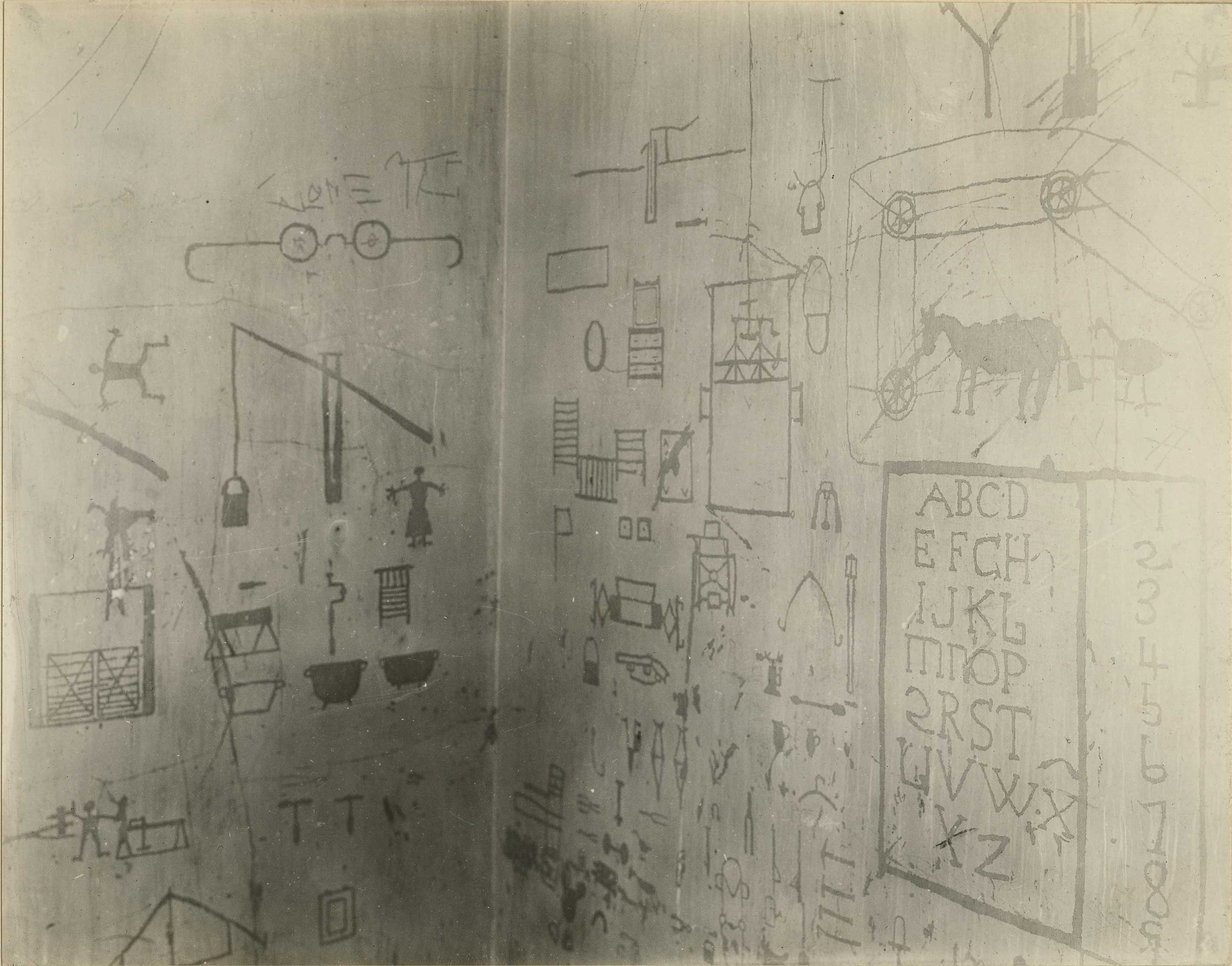 St. Elizabeth's Hospital. Wall of room in Ward Retreat 1. Reproductions made by a patient, a disturbed case of dementia praecox; pin or fingernail used to scratch paint from wall, top coat of paint buff color, superimposed upon a brick red coat of paint. Pictures symbolize events in patient's past life and represent a mild state of mental regression. Undated, but likely early 20th century. Selected by Kathleen.